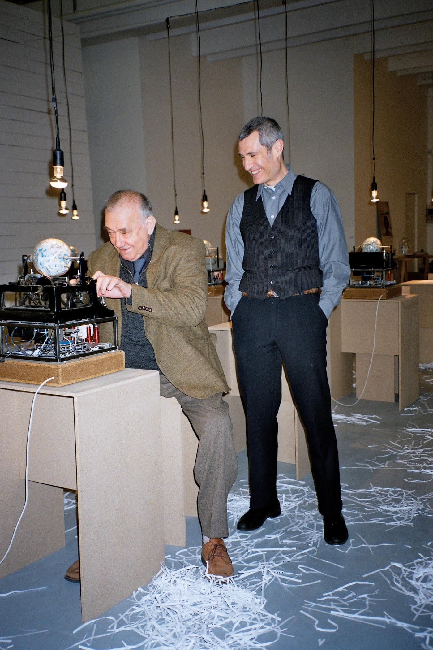 Exhibition view „Profit“, Costantino Ciervo and Daniel Spoerri in front of the installation/performance „Profit“, dispari&dispari project, Reggio Emilia, Italy 2006, photo: Gianni Sassi